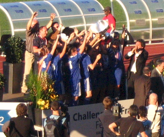 PSG (women) win the Challenge de France 2010